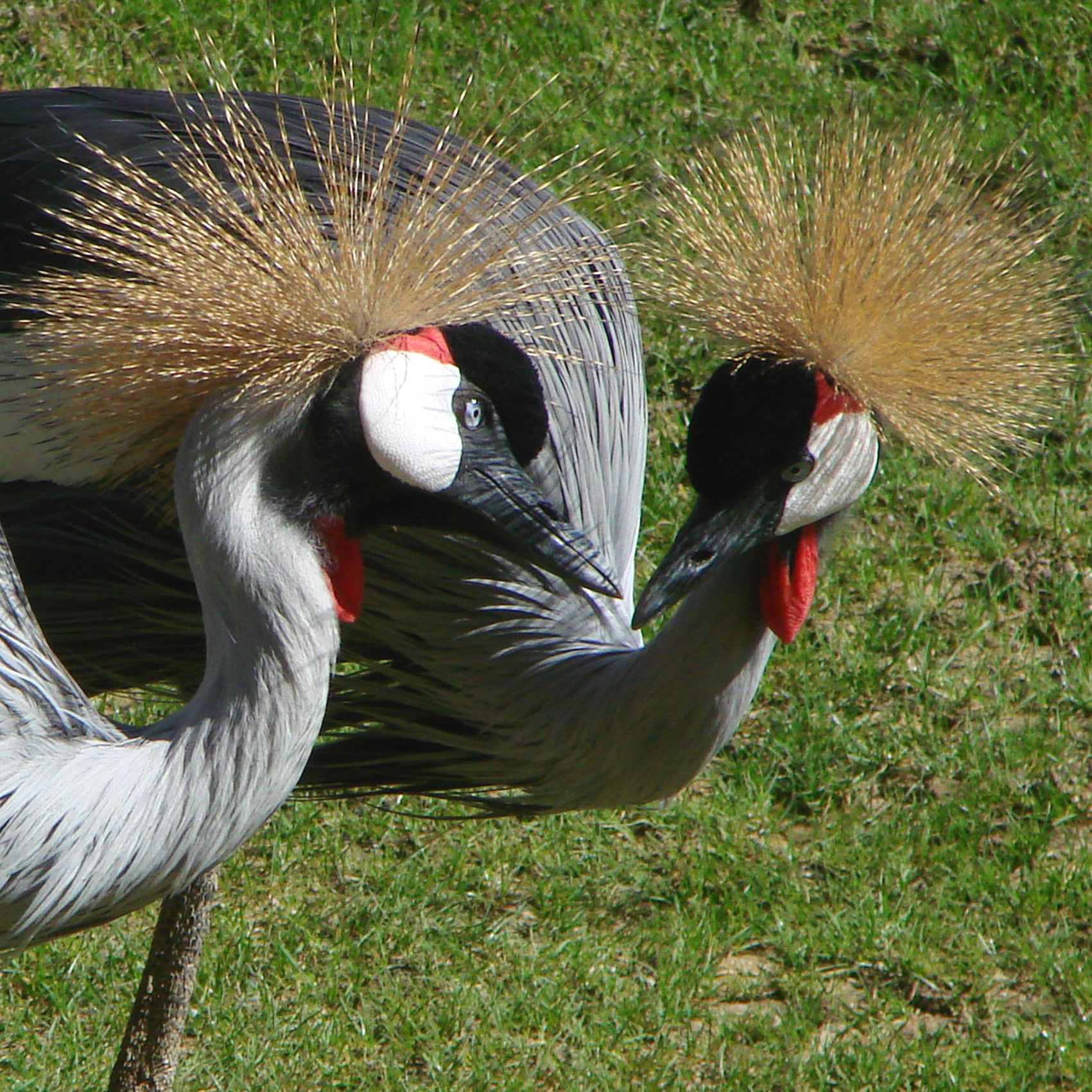 Black Grey crowned cranes (Balearica pavonina regulorum), zoo d'Amnéville, France. Gray body, mostly white cheek patch with red upper border, and long red wattle identify this species.